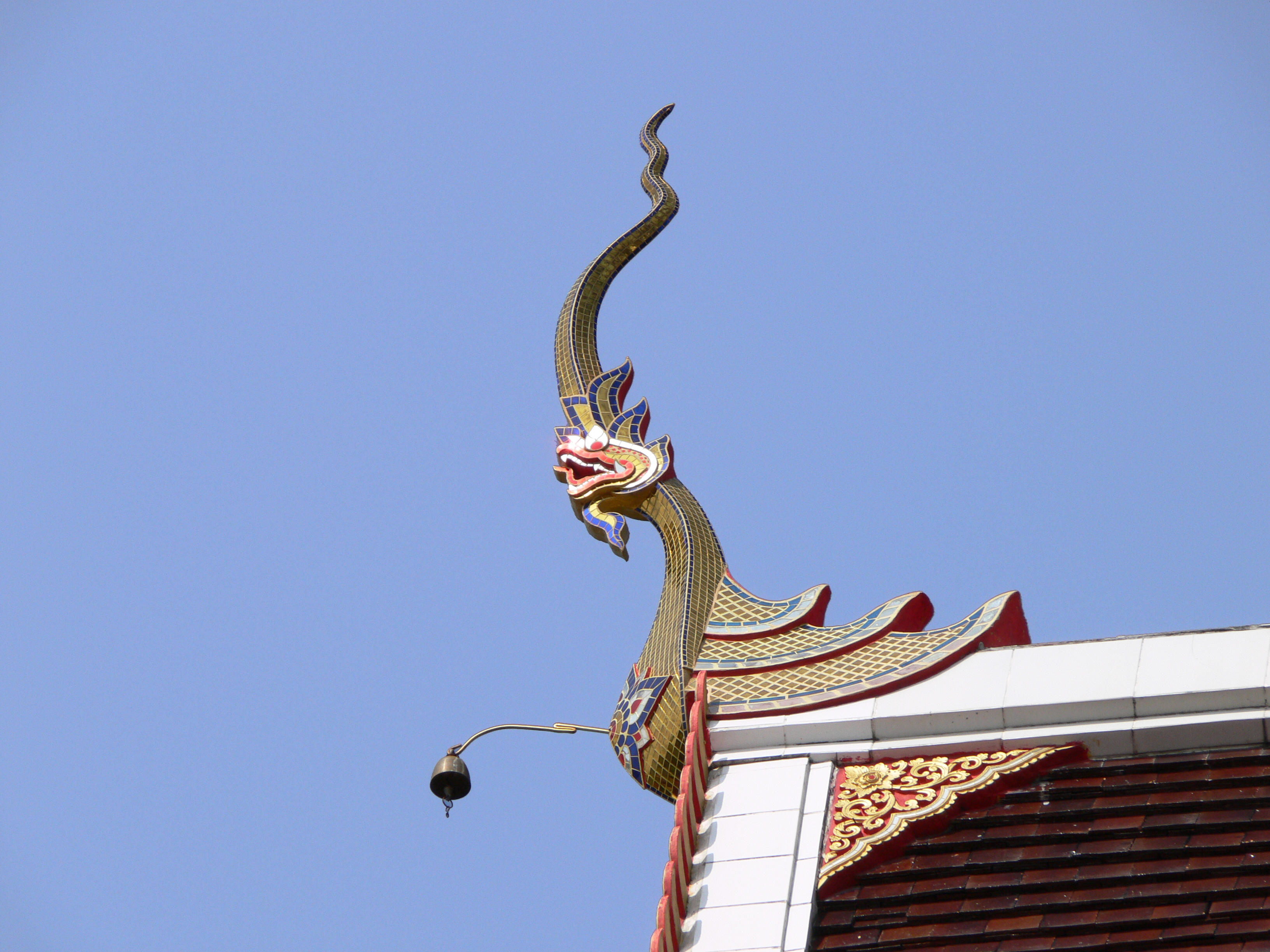 The Naga headed Chofa of Wat Monthian, Chiang Mai, Thailand.